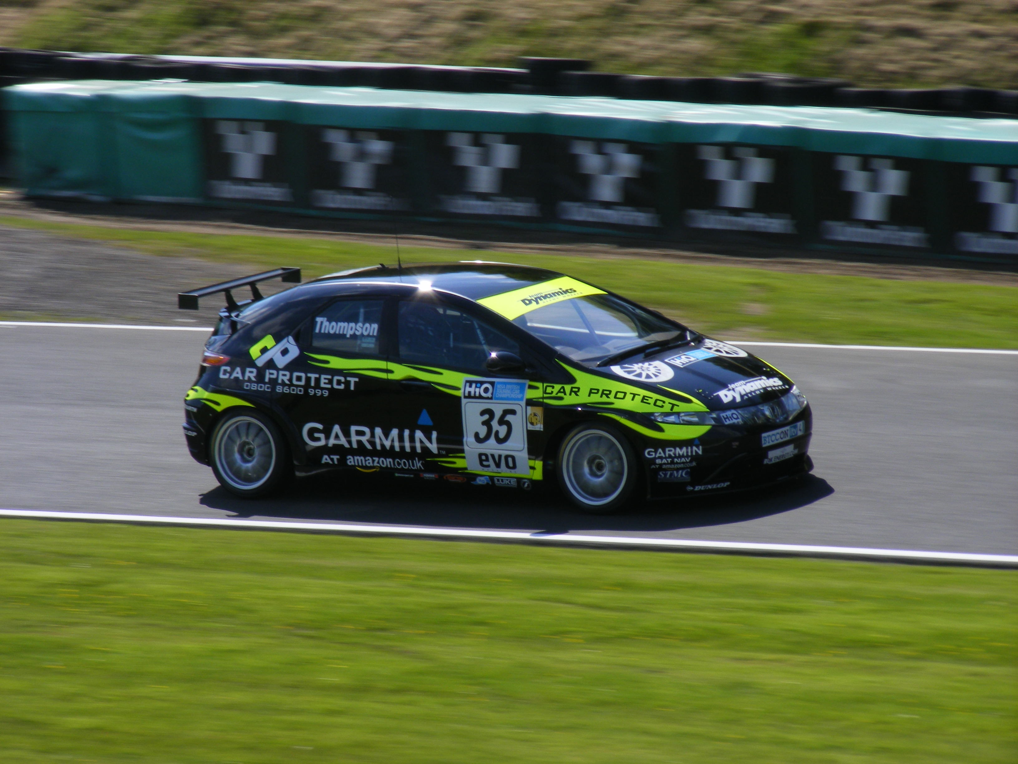 James Thompson exits knickerbrook at Oulton Park during a qualifying session.